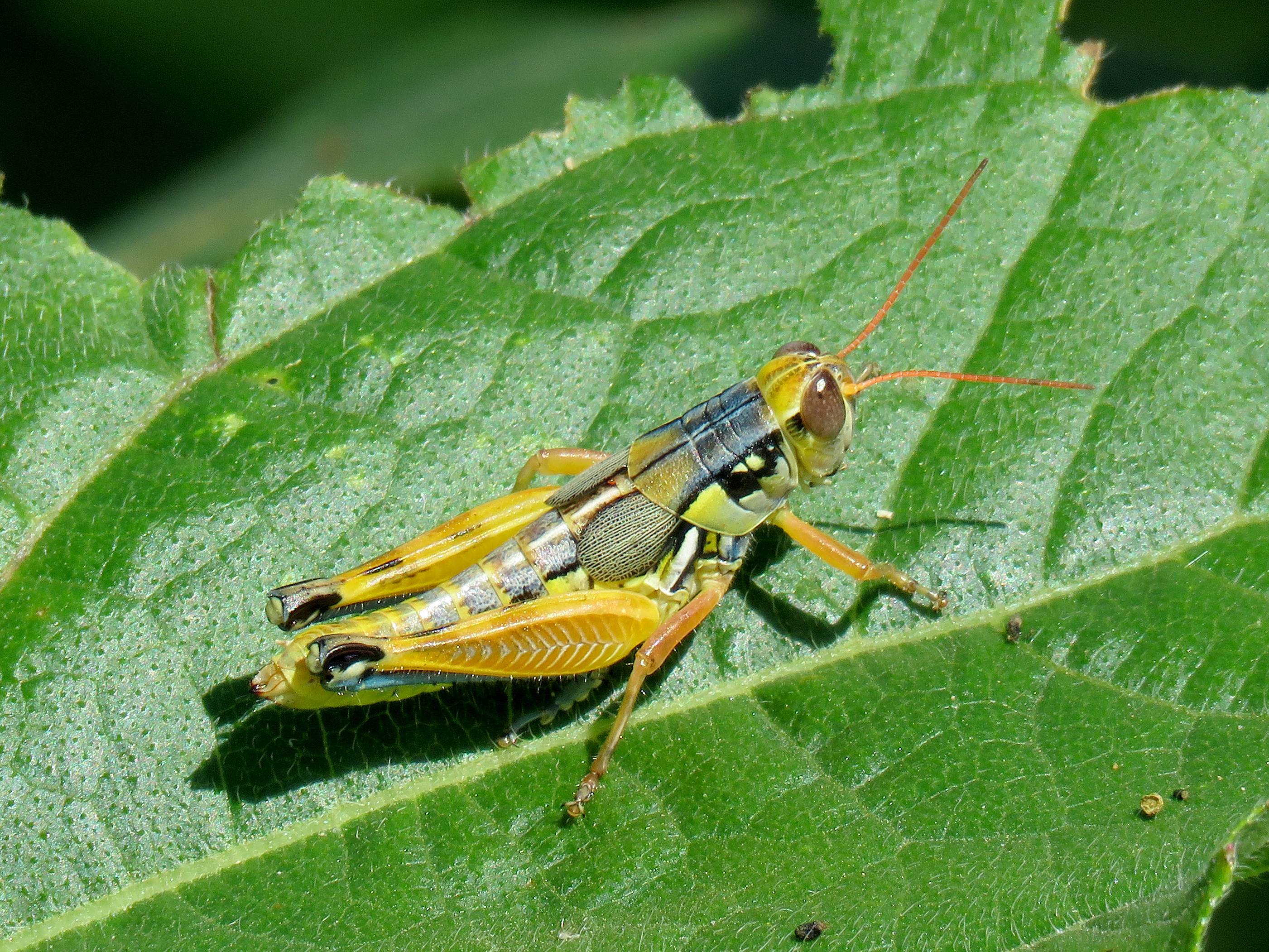 Melanoplus aridus. San Pedro Riparian National Conservation Area (SPRNCA), Cochise County, Arizona, USA.